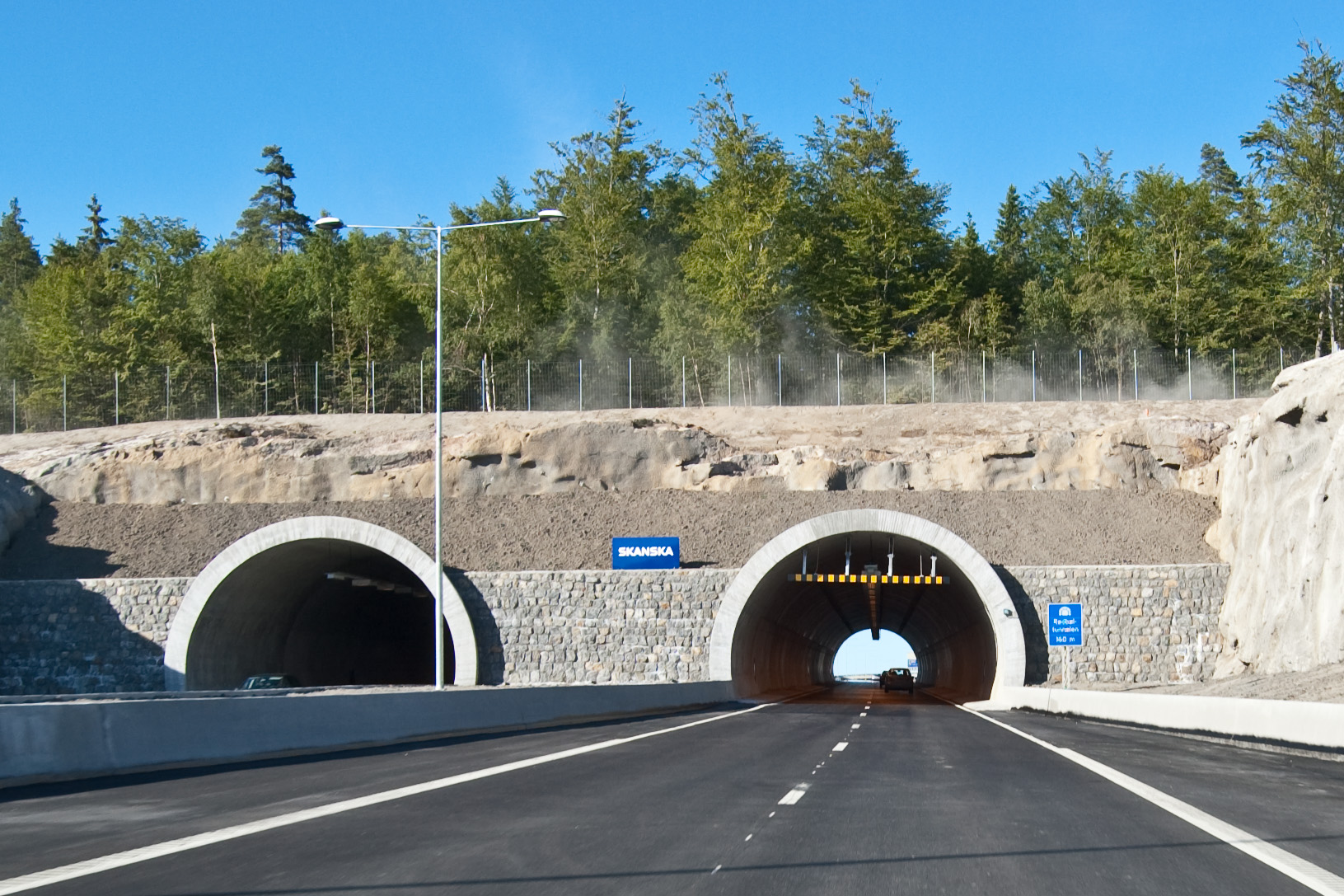 National road E18: Rødbøl tunnel near Larvik, Norway